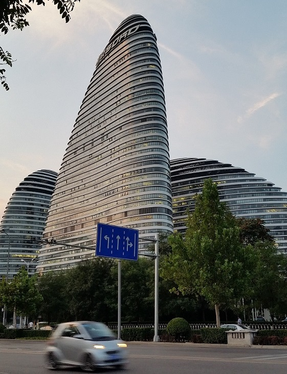 Picture of the Wangjing Soho from Wangjing Road, Beijing, August 2015